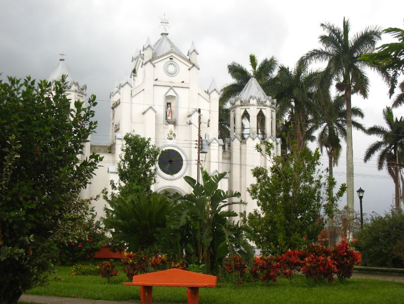 Central church of the canton of Santa Barbara de Heredia, Costa Rica